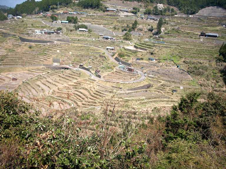 Maruyama-Senmaida, in Kumano city, Mie prefecture Japan.